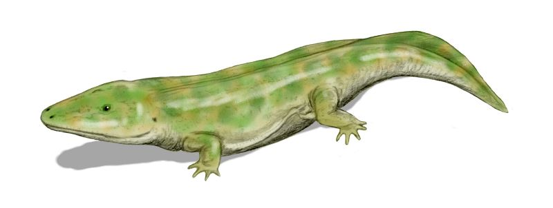 Eryosuchus sp., a temnospondyli from the Middle Triassic of Russia, pencil drawing